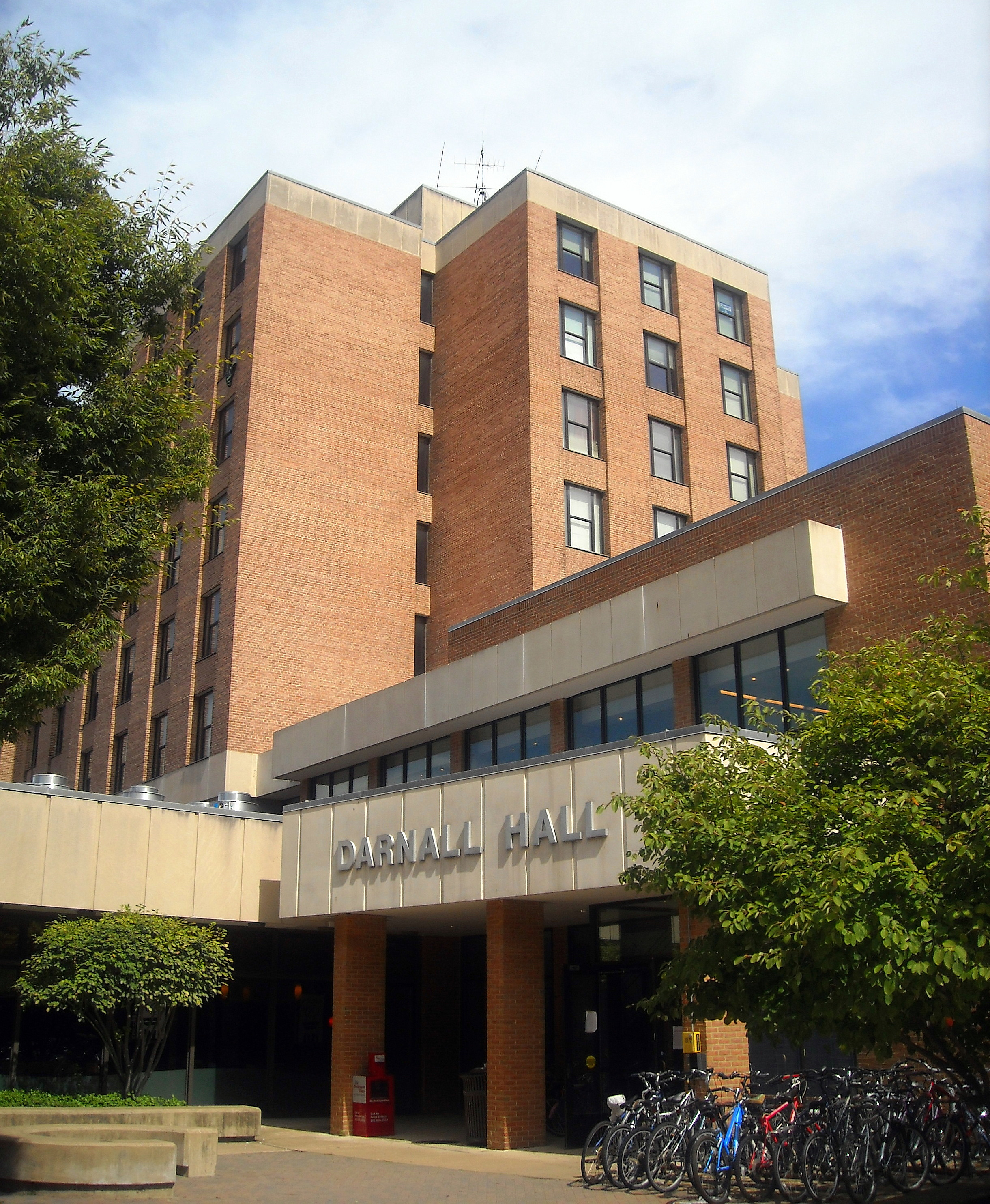 Darnall Hall on the campus of Georgetown University in Washington, D.C.